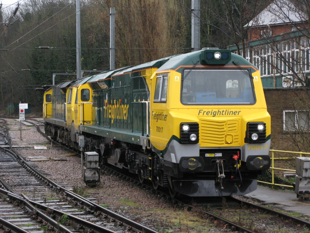 Freightliner UK's newest American-built locomotive, 70017, seen at Ipswich just ten days after arriving in England. It is in the company of slightly older sister locomotive 70007.